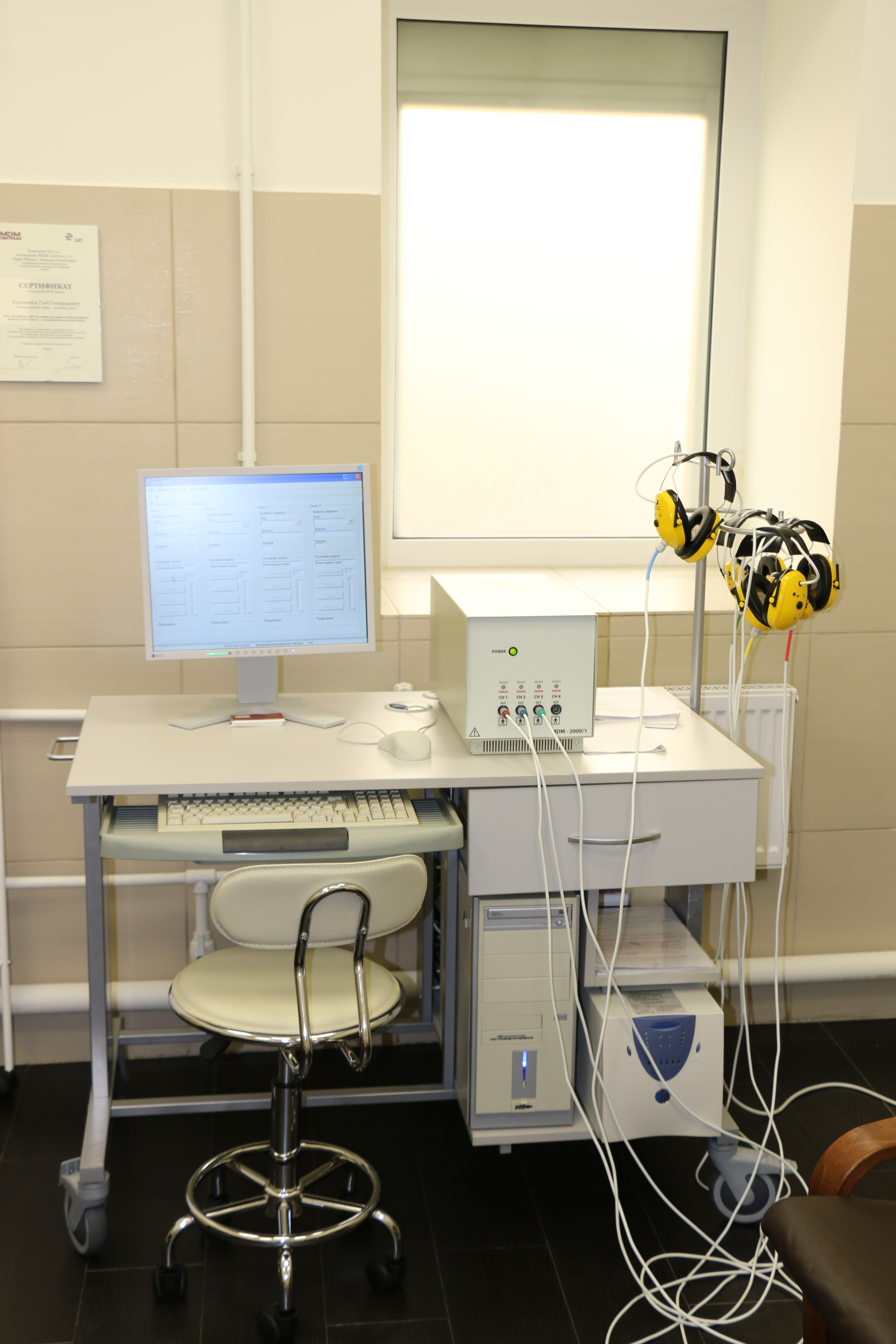 Mezodienzifalnaia modylazia